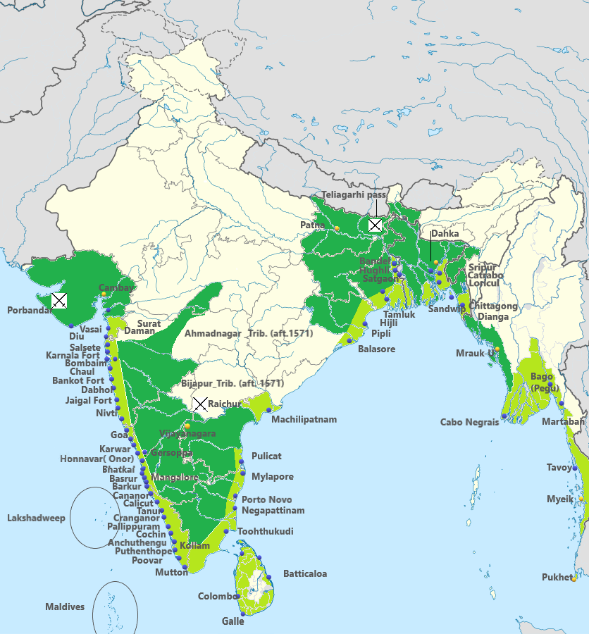 a